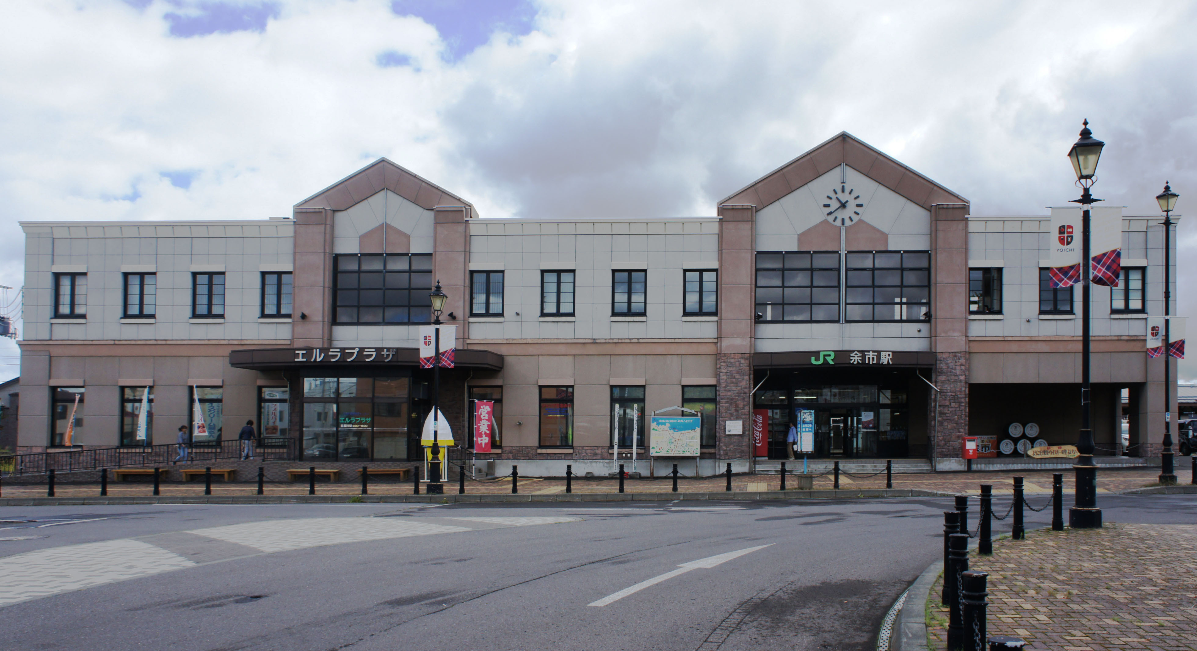 Station building of JR Hakodate-Main-Line Yoichi Station